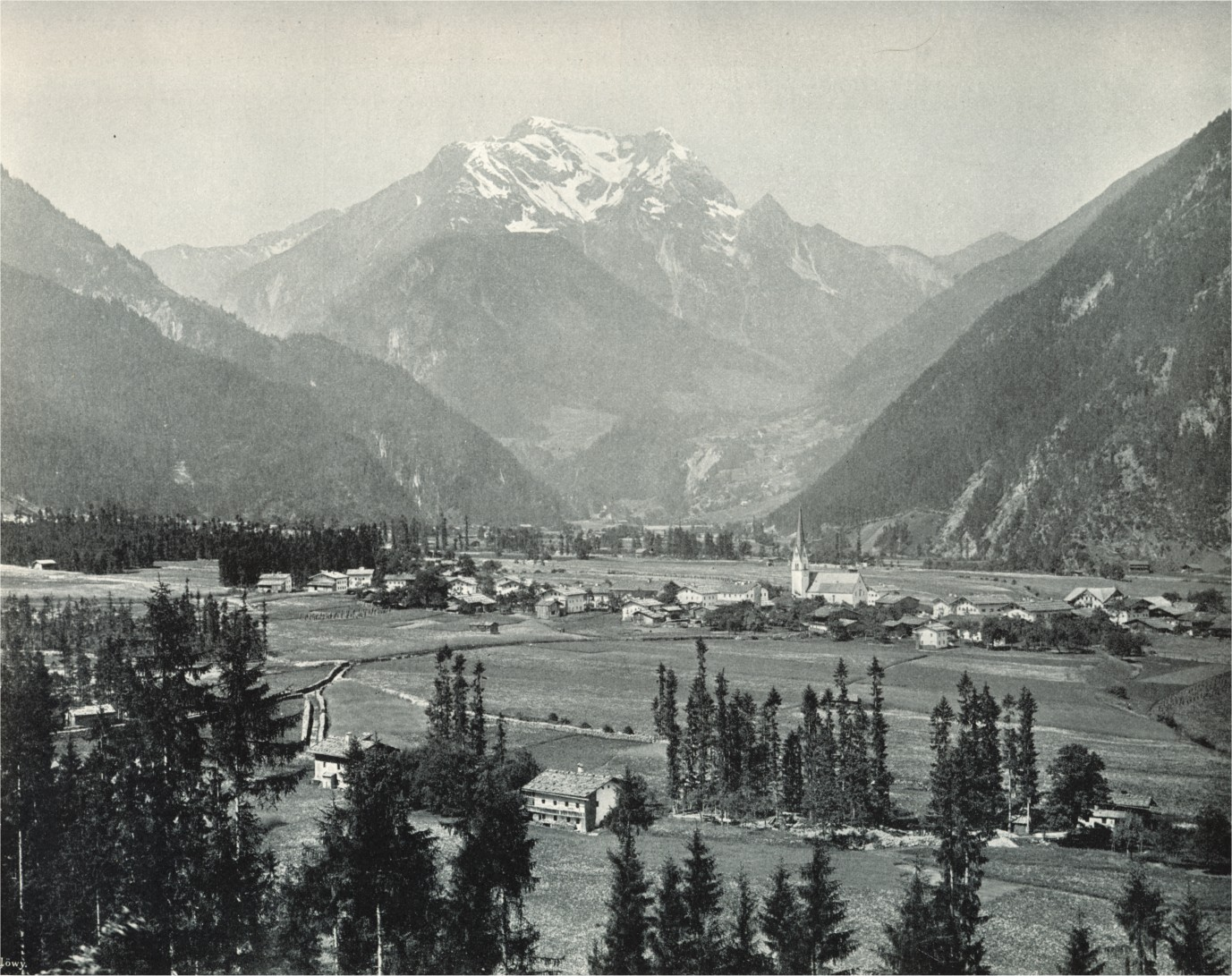 The Zillertal, a valley in the Tyrol, around 1898